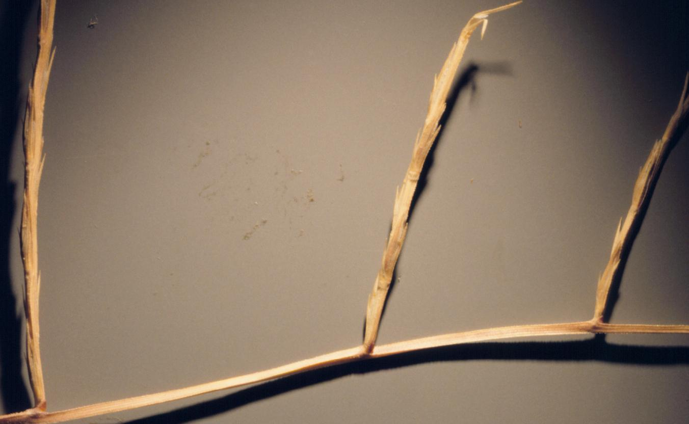 The long lateral branches (e.g., over 5 cm long) bear widely spaced and strongly appressed spikelets, the latter of which averages less than 4 mm long.